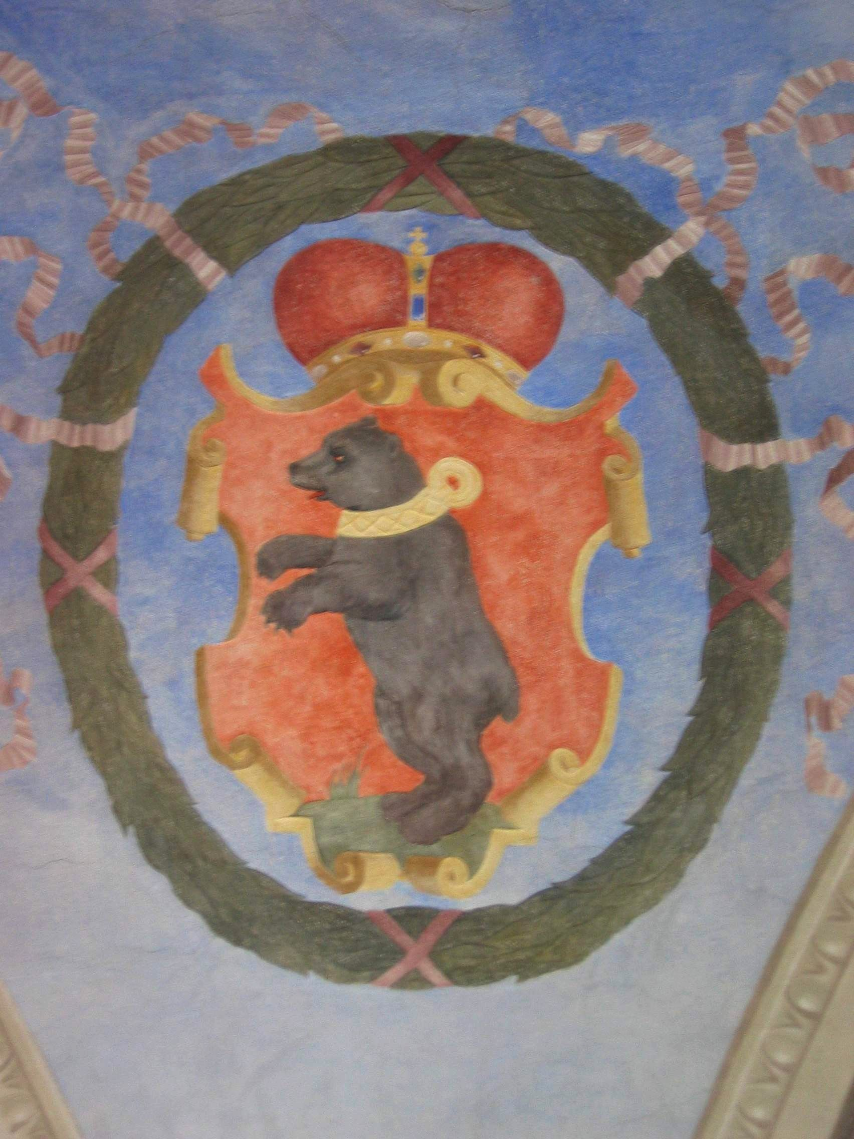 coat of arms of Duchy of Samogita (Żmudź, Žemaitija) image taken by user:Mathiasrex Maciej Szczepańczyk